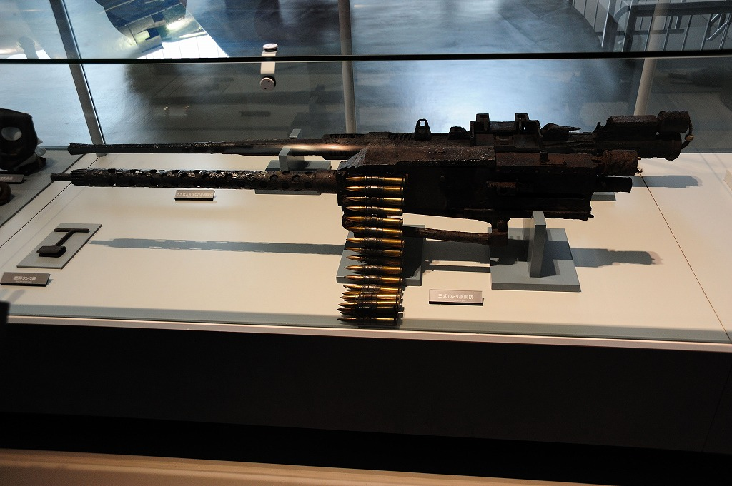 Japanese Type3(Sanshiki) 13.2mm Air to Air Machinegun, Used by a Mitsubishi Zero fighter. In Yamato Museum, Kure Hiroshima